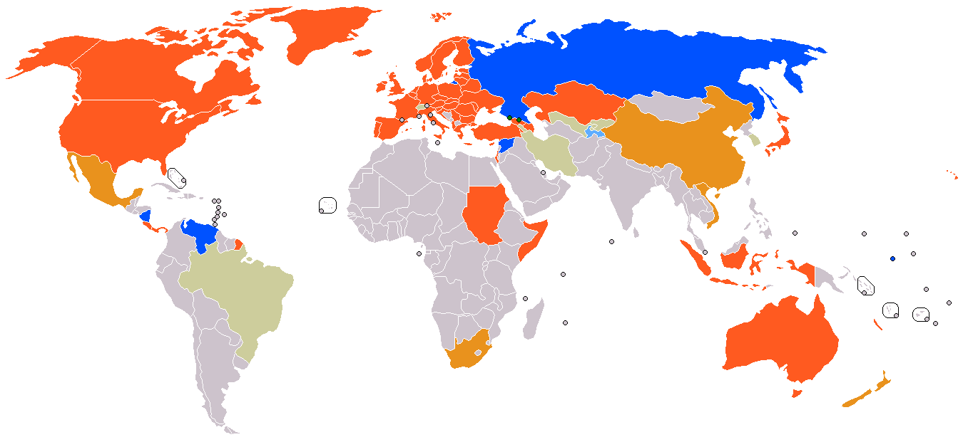 Map of international recognition of Abkhazia and South Ossetia independence (work in progress).